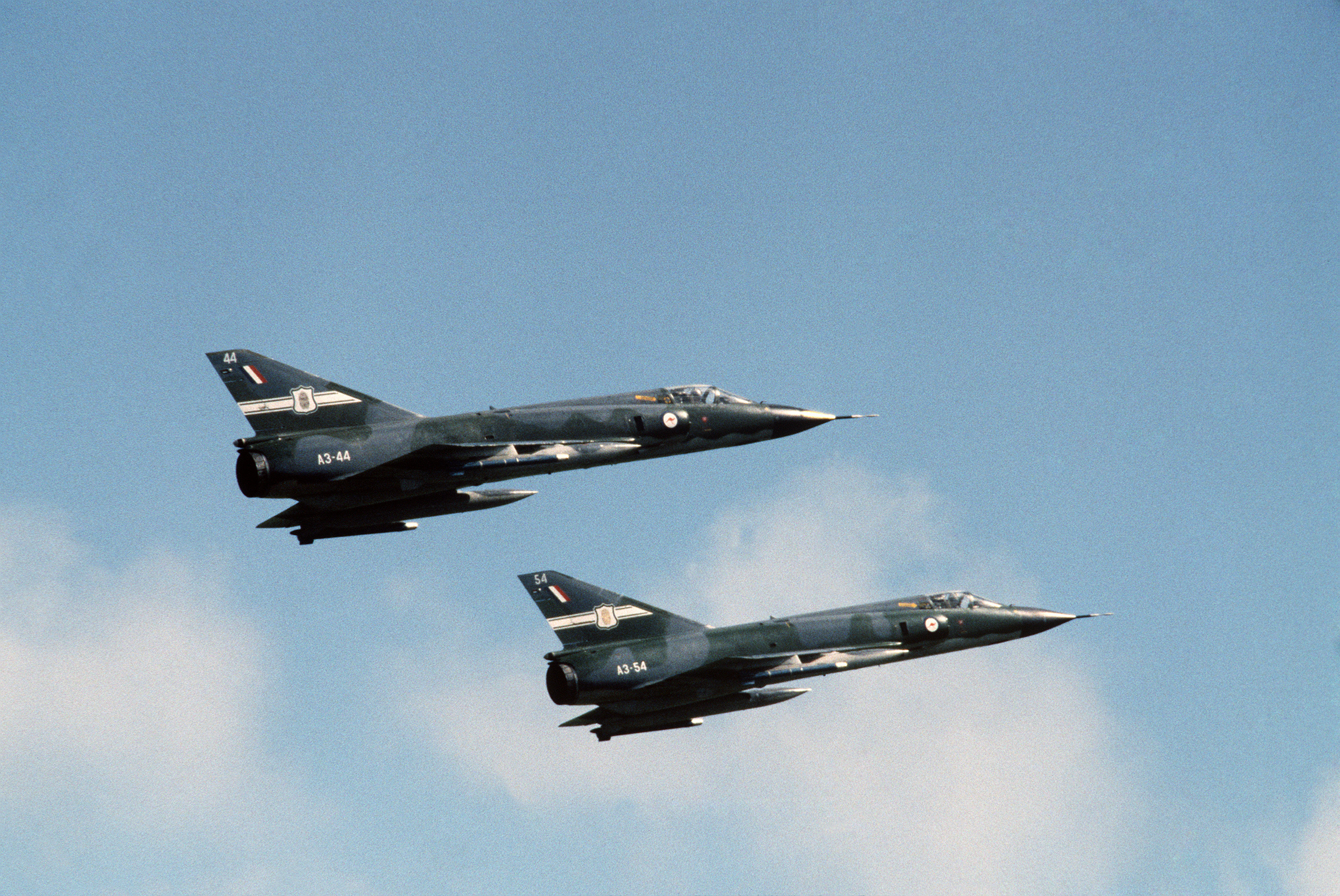 A right side view of two Mirage III aircraft of the Royal Australian Air Force taking off on a mission during the joint Australian, New Zealand and US (ANZUS) Exercise TRIAD '84.